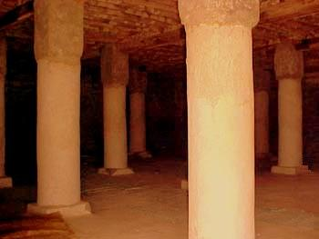 Pillars of a 17th century Mosque at Hafun,Somalia